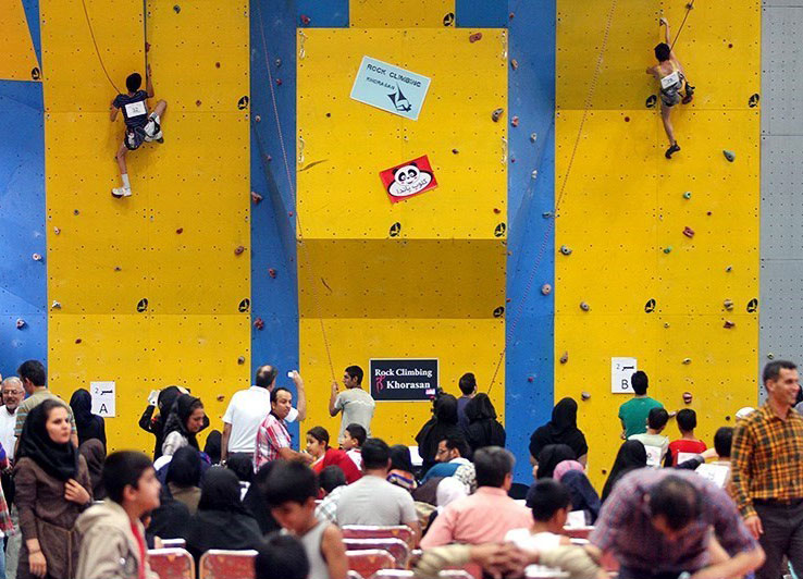 Indoor climbing competition in Mashhad.